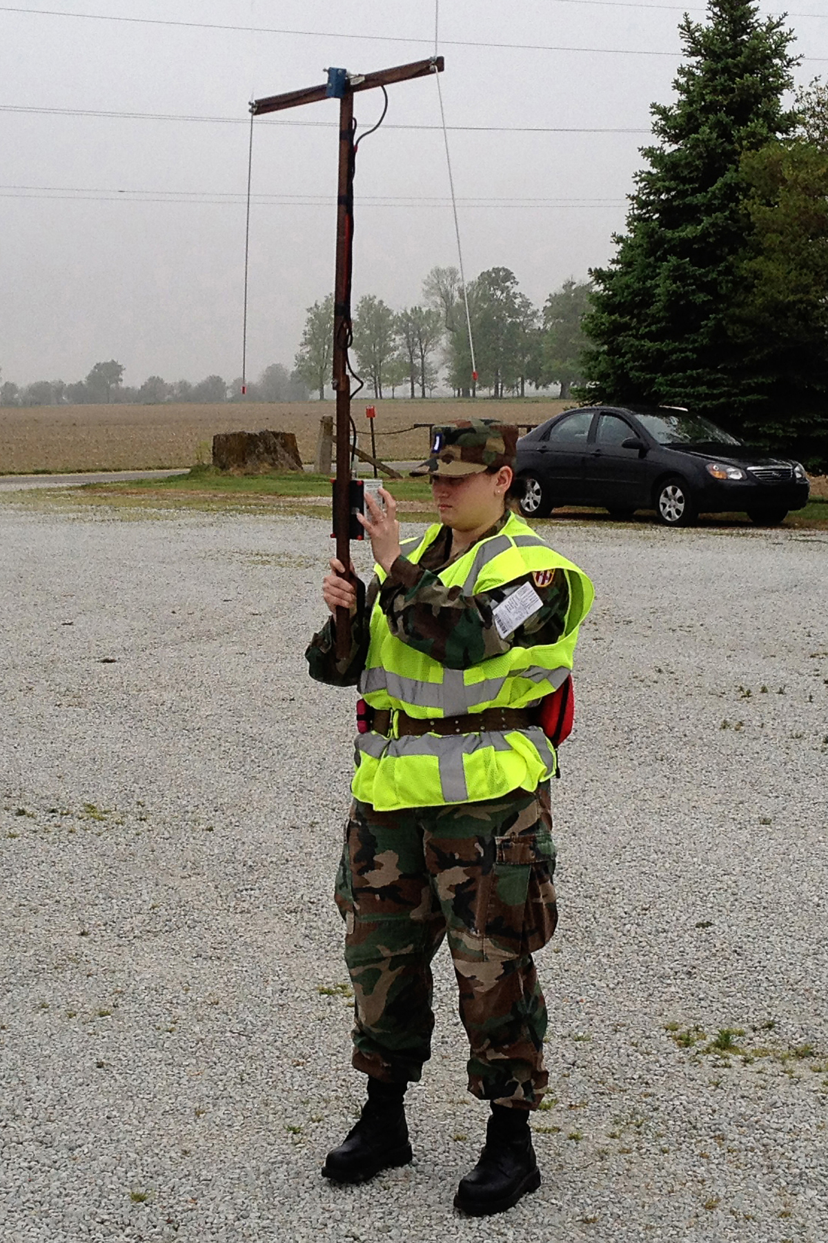 GRISSOM AIR RESERVE BASE, Ind. -- A member of the local Civil Air Patrol operates a radio direction finder during an exercise with the Grissom emergency management team and members of the 434th Communications Squadron in Kokomo, Ind. May 5. The exercise gave the organizations the opportunity to work together and train with their equipment. (U.S. Air Force photo/Robert Wydock Jr.)